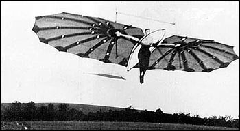 'The Hawk' hang glider built and flown by Percy Pilcher in 1897. On June 20, 1897, Percy let Miss Dorothy Pilcher, his cousin be given a towed flight; the image appears to be a woman flying.